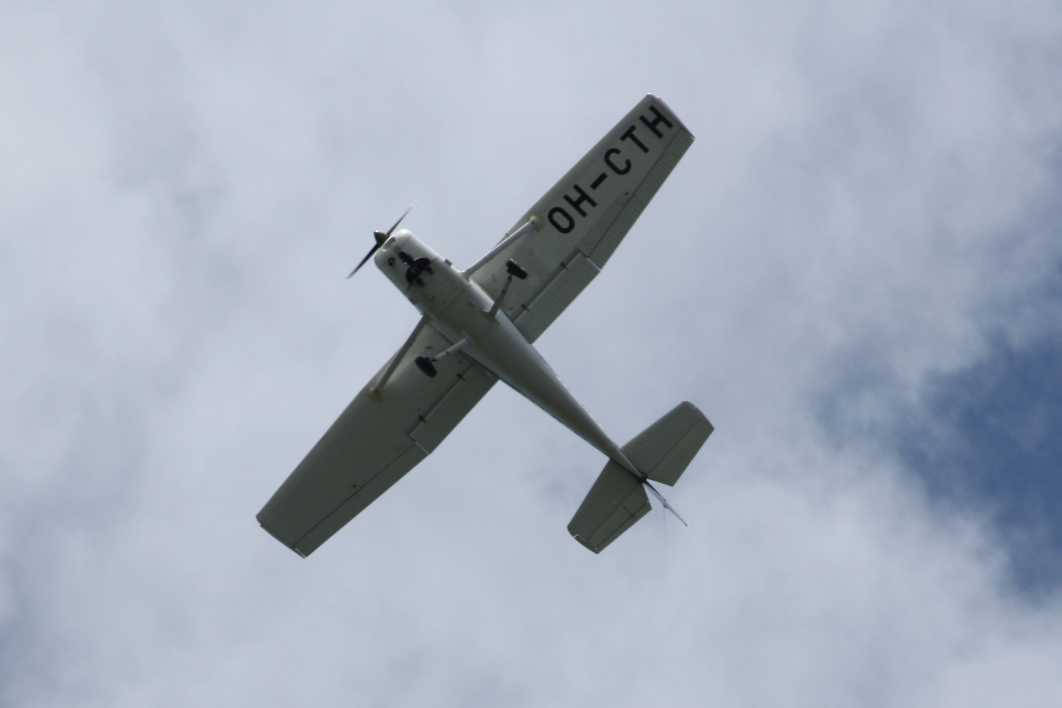 Cessna 152 OH-CTH flying over Harakka Island in front of Helsinki